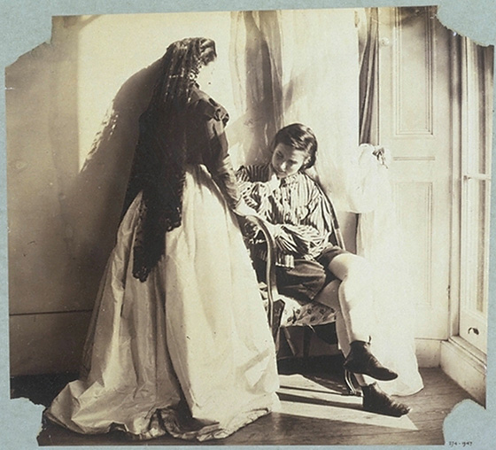 Photographed at 5 Princes Gardens, South Kensington, London.